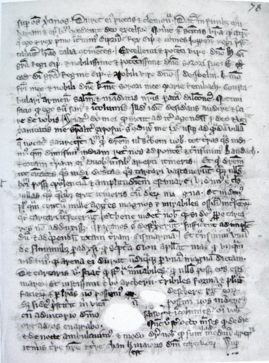 14th century copy of the letter of Sempad to Henry I of Cyprus and Jean d'Ibelin.